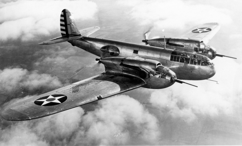 PictionID:40971821 - Title:Airacuda Bell XFM-1 36-351- Catalog:15_002692 - Filename:15_002692.tif - Image from the Charles Daniels Photo Collection album "US Army Aircraft."----PLEASE TAG this image with any information you know about it, so that we can permanently store this data with the original image file in our Digital Asset Management System.----SOURCE INSTITUTION: San Diego Air and Space Museum Archive